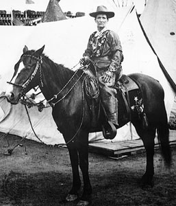 Calamity Jane on a horse